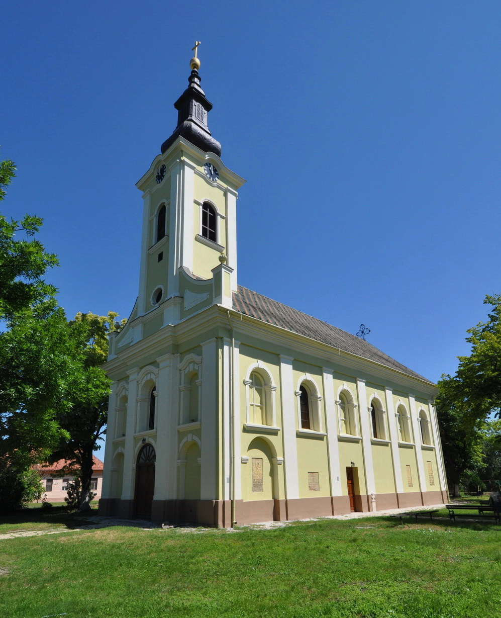 Serbian Orthodox church of Saint Sava and Saint Simeon in Srpski Itebej